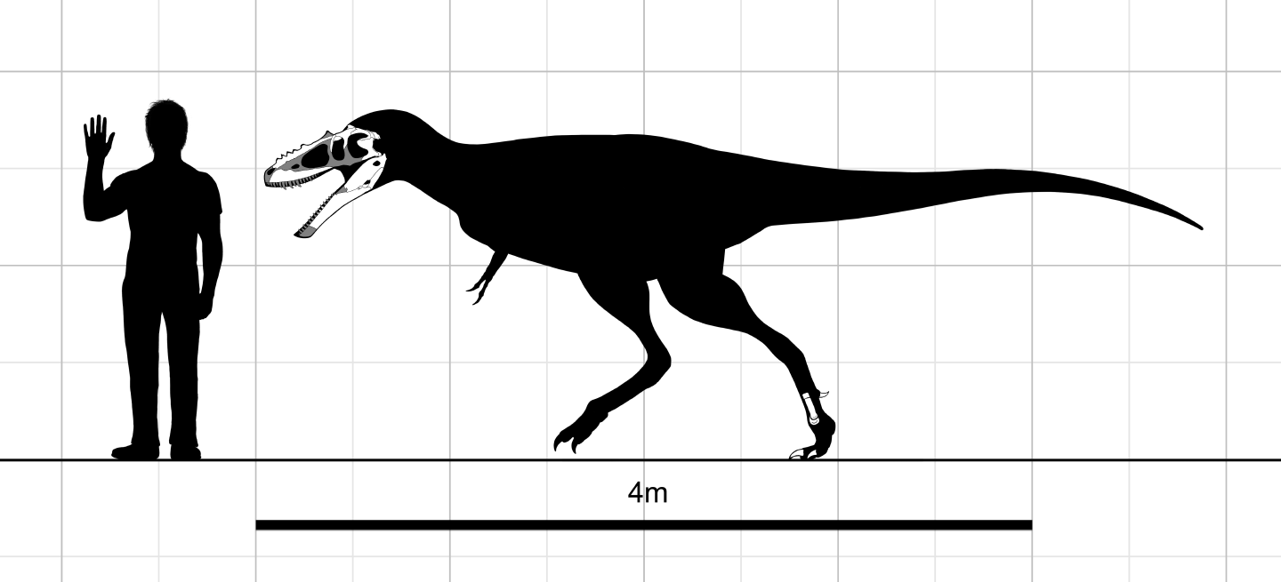 Alioramus remotus scale diagram, • Showing some of the known bones of Alioramus remotus (A few vertebra are also known). • Due to Alioramus fragmentary status this image isn't rigorous in proportions; it is mearly to demonstrate approximate proportions. • The silhouette is based on juvenille Gorgosaurus skeletal reconstructions by Gregory S. Paul in Tyrannosaurus Rex, the Tyrant King by Peter Larson and Kenneth Carpenter (2008), Scott Hartman, and a skeletal reconstruction of Alioramus altai (Brusatte et al. 'A long-snouted, multihorned tyrannosaurid from the Late Cretaceous of Mongolia' 2009). The skull based on a diagram by Tracy L Ford in 'The Dinosauia 2nd edition' 2004. The skull length was determined by the scale bar in Tracy Ford's diagram. • Human 1.8 meters. Scale bar in Meters. NOTE: I often update my images. If you want to have any of my images on a website, please (if possible) don’t host/save it to the website server. I’d prefer it if the image's Wikimedia URL is used. This means that if I update an image, it will be updated on the site as well. Thanks.